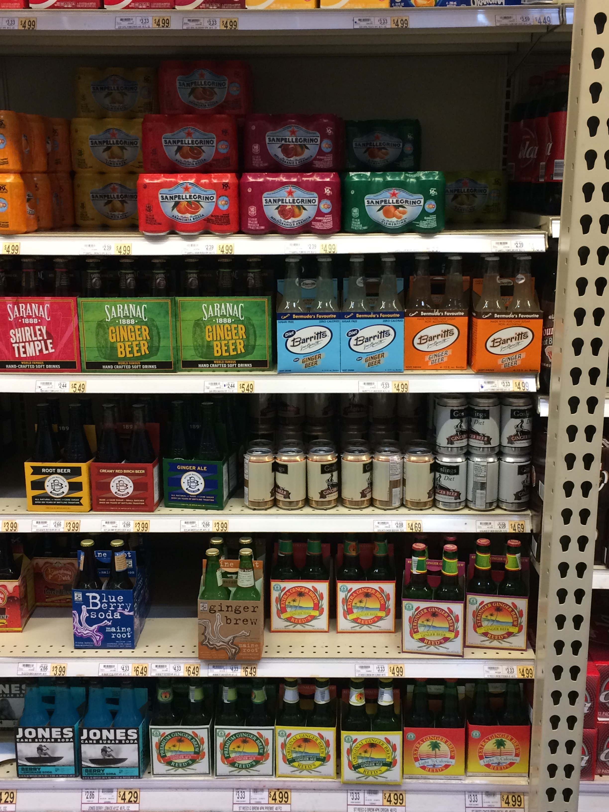 A series of ginger beer brands on display at a supermarket.